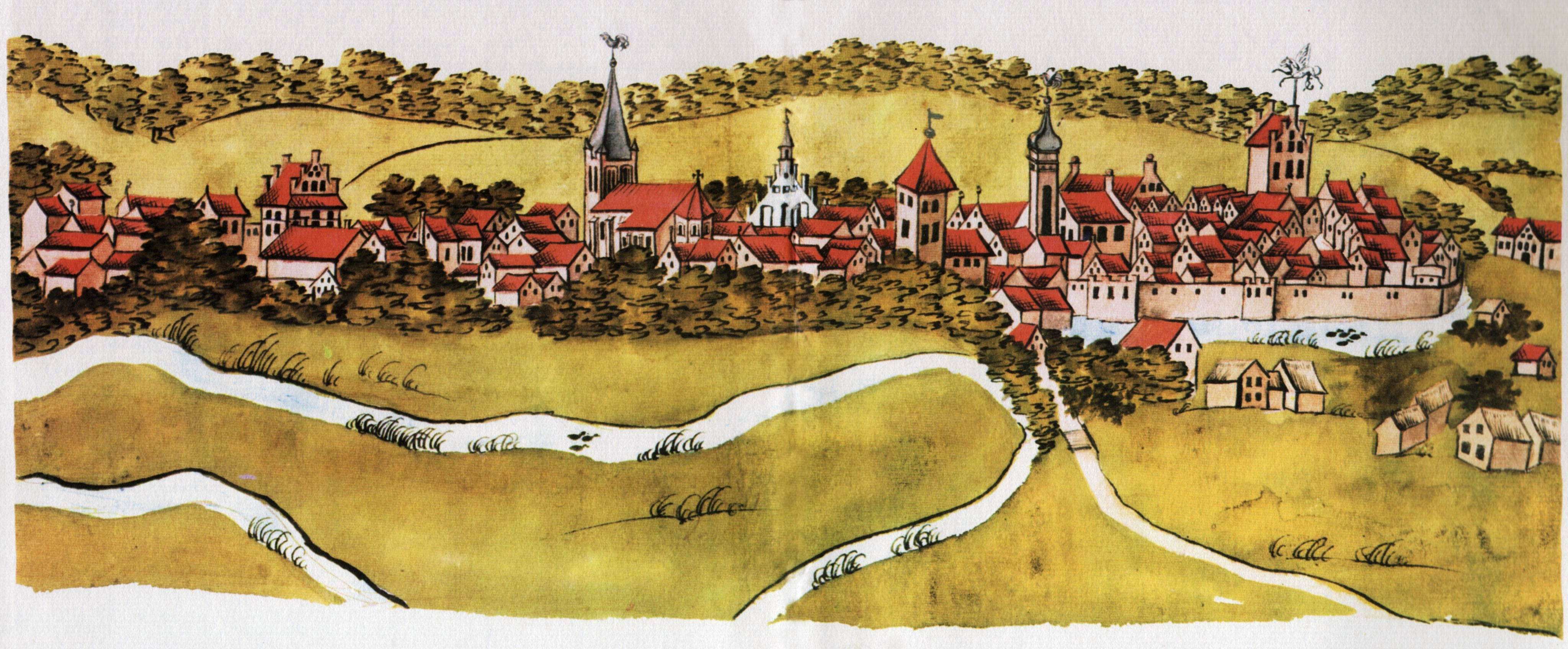 Cityview of Altentreptow from the "Stralsunder Bilderhandschrift"